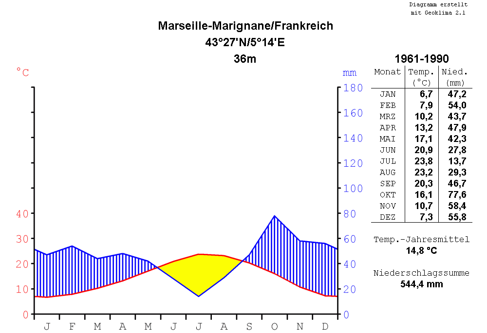 climate chart of Marseille-Marignane, France, for the period of time from 1961 to 1990, in the format by Walter and Lieth, metric, °Celsius and millimeters, chart made with Geoklima 2.1, label in German